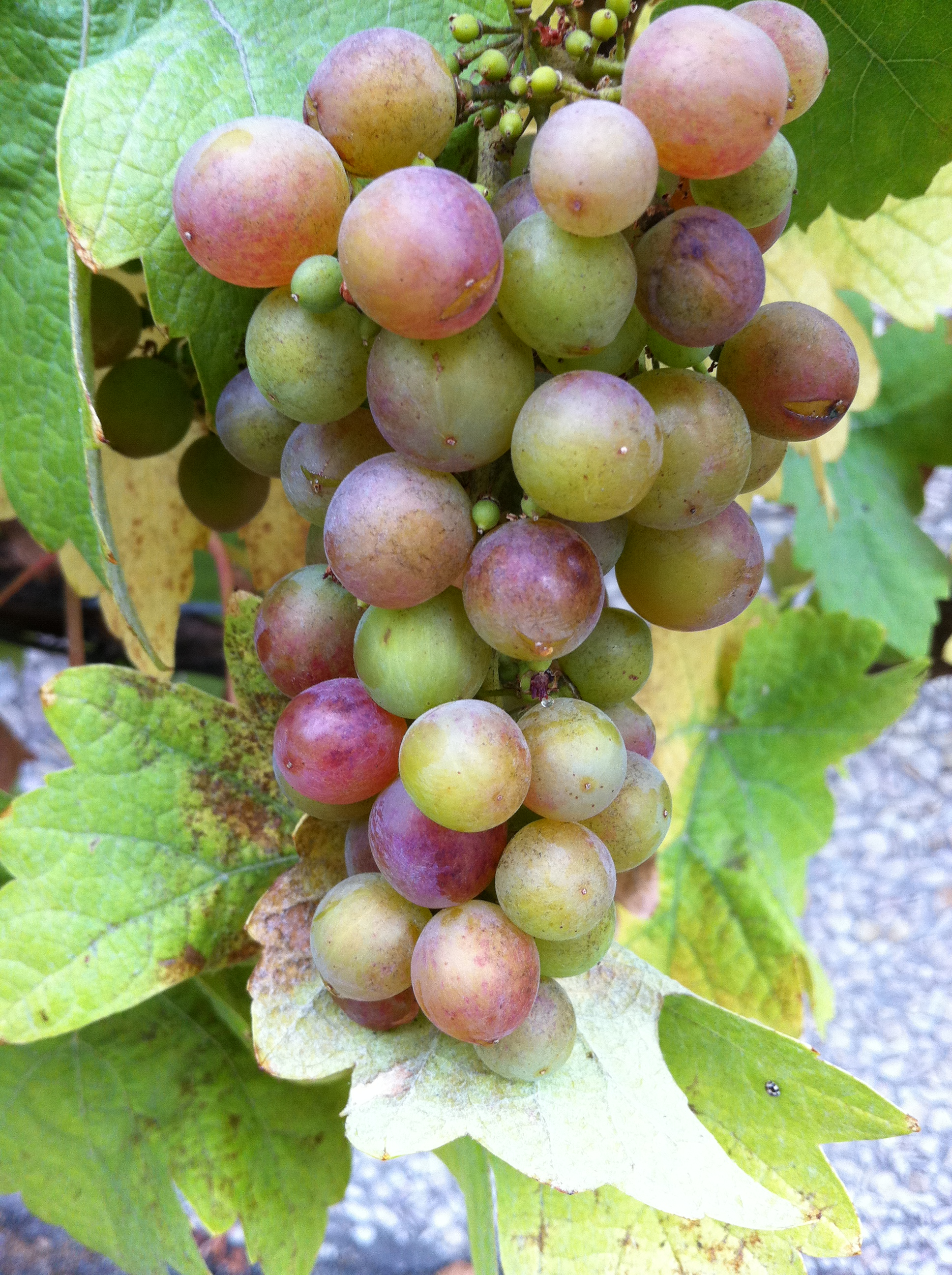 Grape cluster growing in Western Washington with immature berries